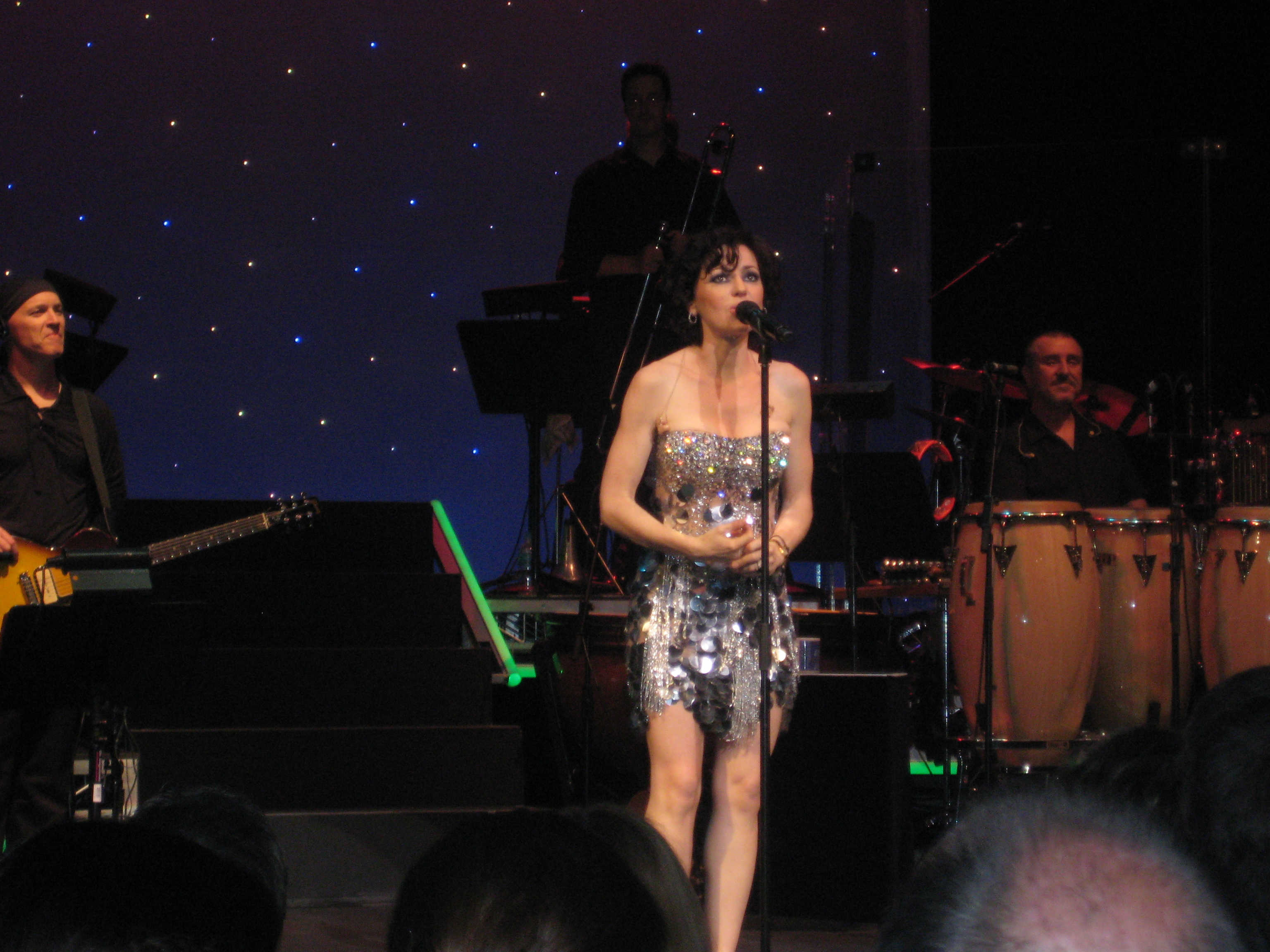 Tina Arena performing on opening night of her 2009 Australian tour at the Sydney State Theatre